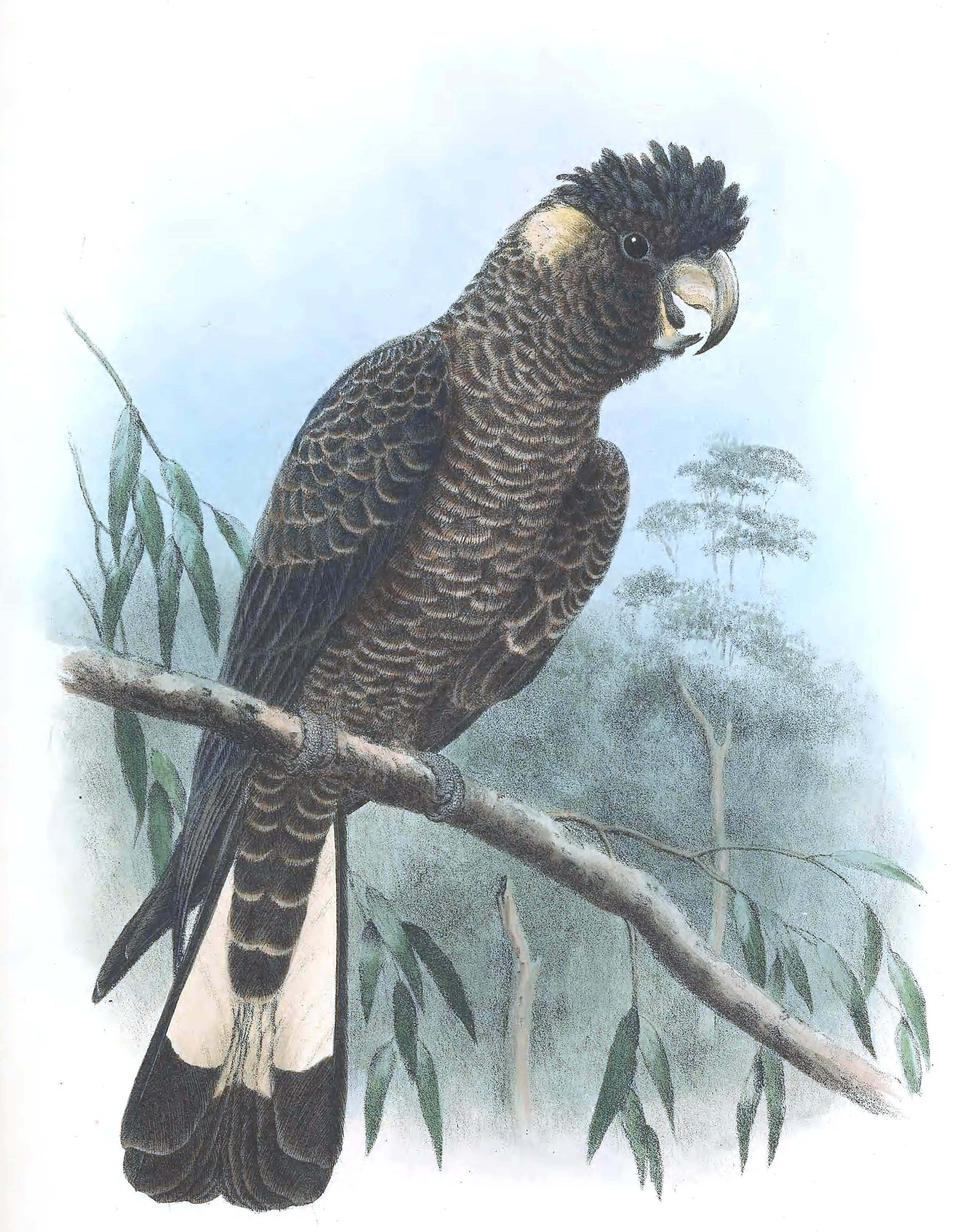 Image of "Zanda baudinii, White-Tailed Black Cockatoo"